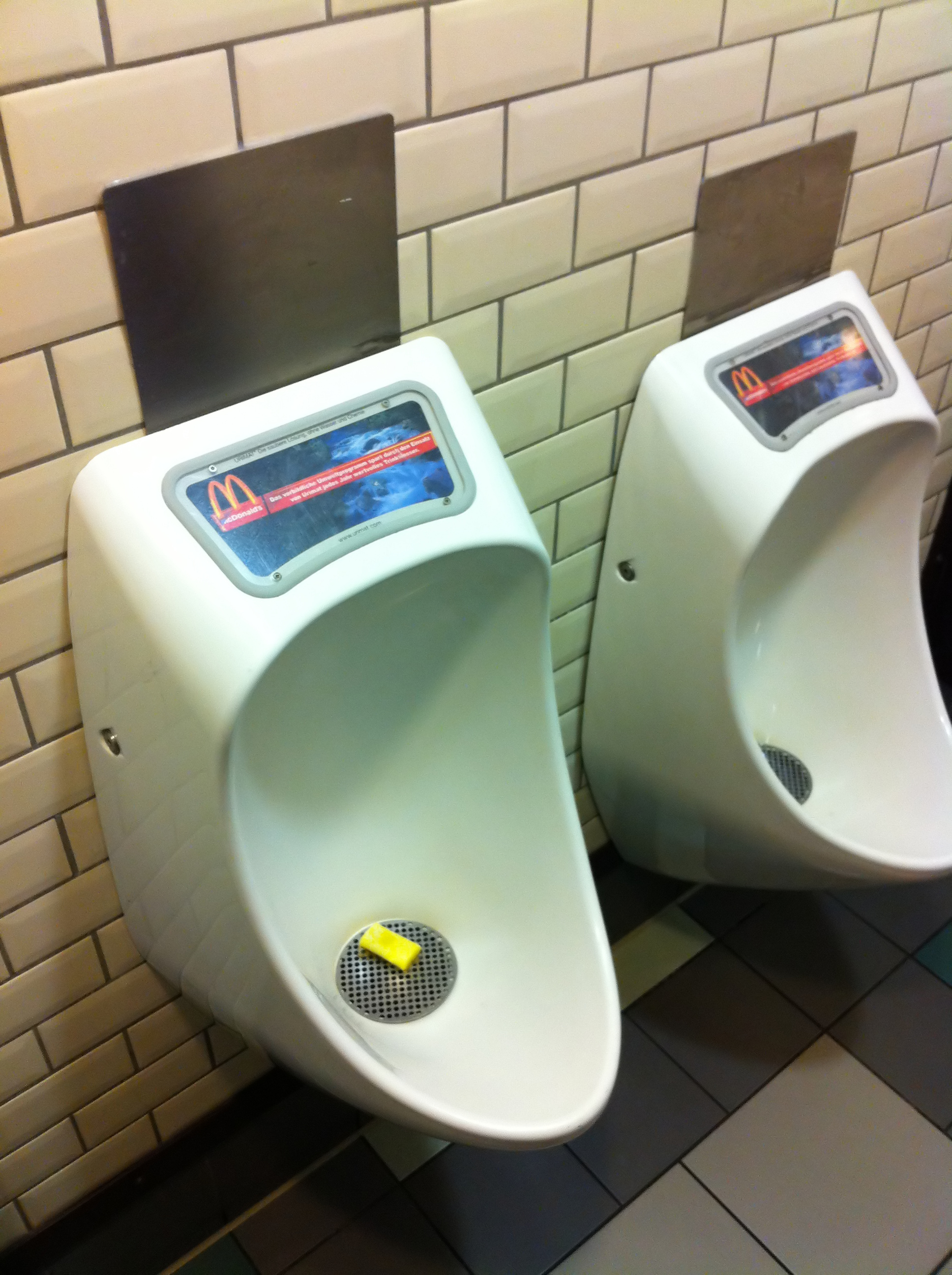 waterfree urinal, germany, bonn, mc donalds restaurant